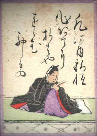 A portrait of Ōshikōchi no Mitsune; illustration from an uta-garuta playing card for Hyakunin Isshu, created in the Edo period.